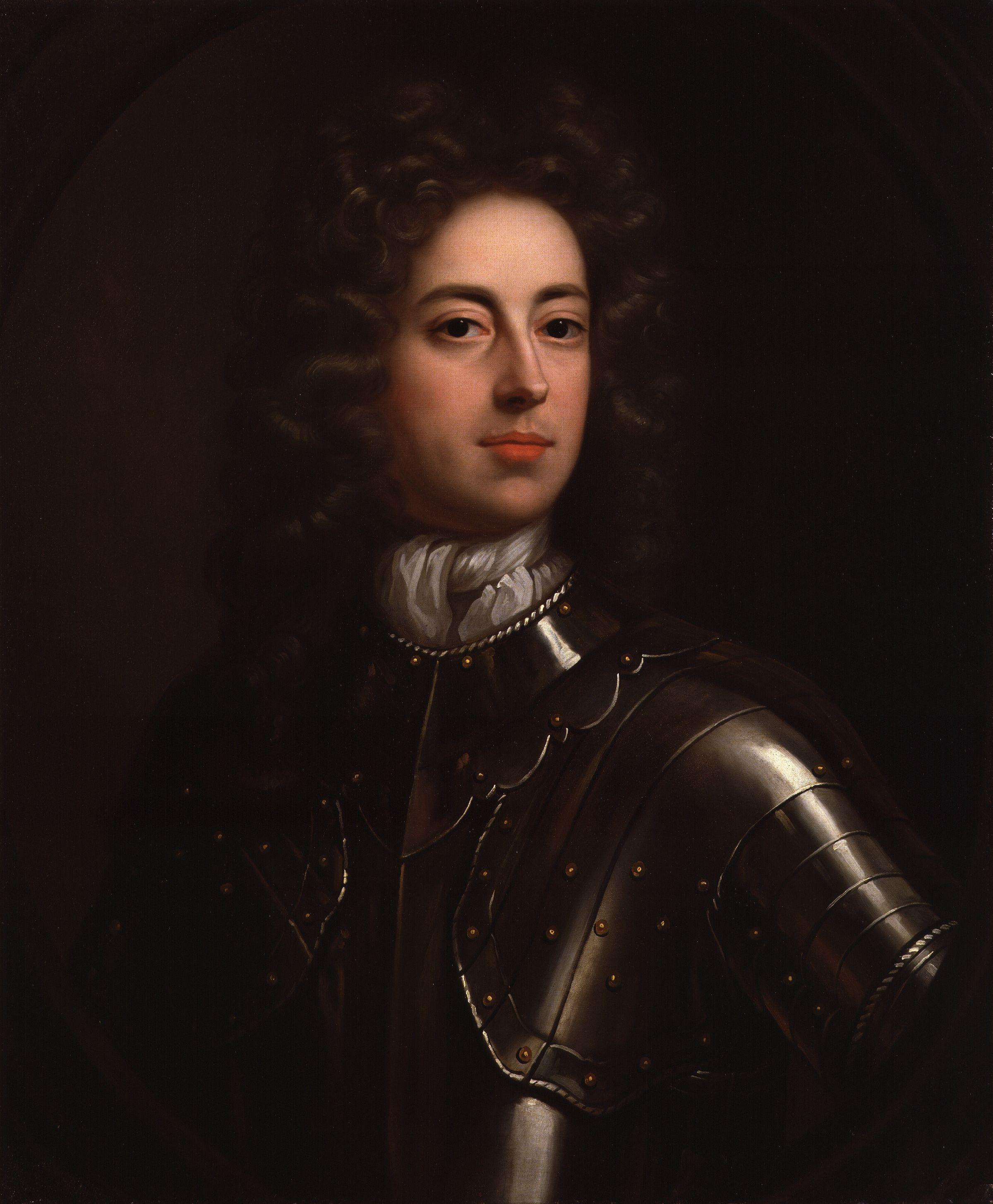 John Churchill, 1st Duke of Marlborough, by John Closterman (died 1711). All images in this batch have been confirmed as author died before 1939 according to the official death date listed by the NPG.